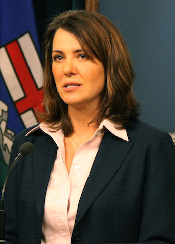 Wildrose Alliance leader Danielle Smith reacts to Premier Ed Stelmach's resignation announcement on January 25, 2011.